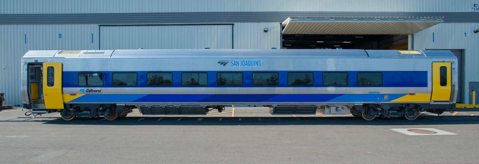 A new Siemens Venture railcar manufactured for Amtrak California's San Joaquins train service.